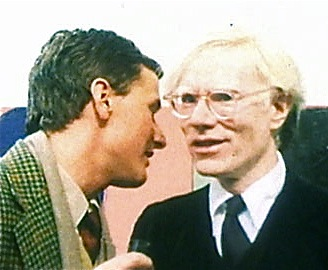 Andy Warhol and Thomas Ammann, 1978